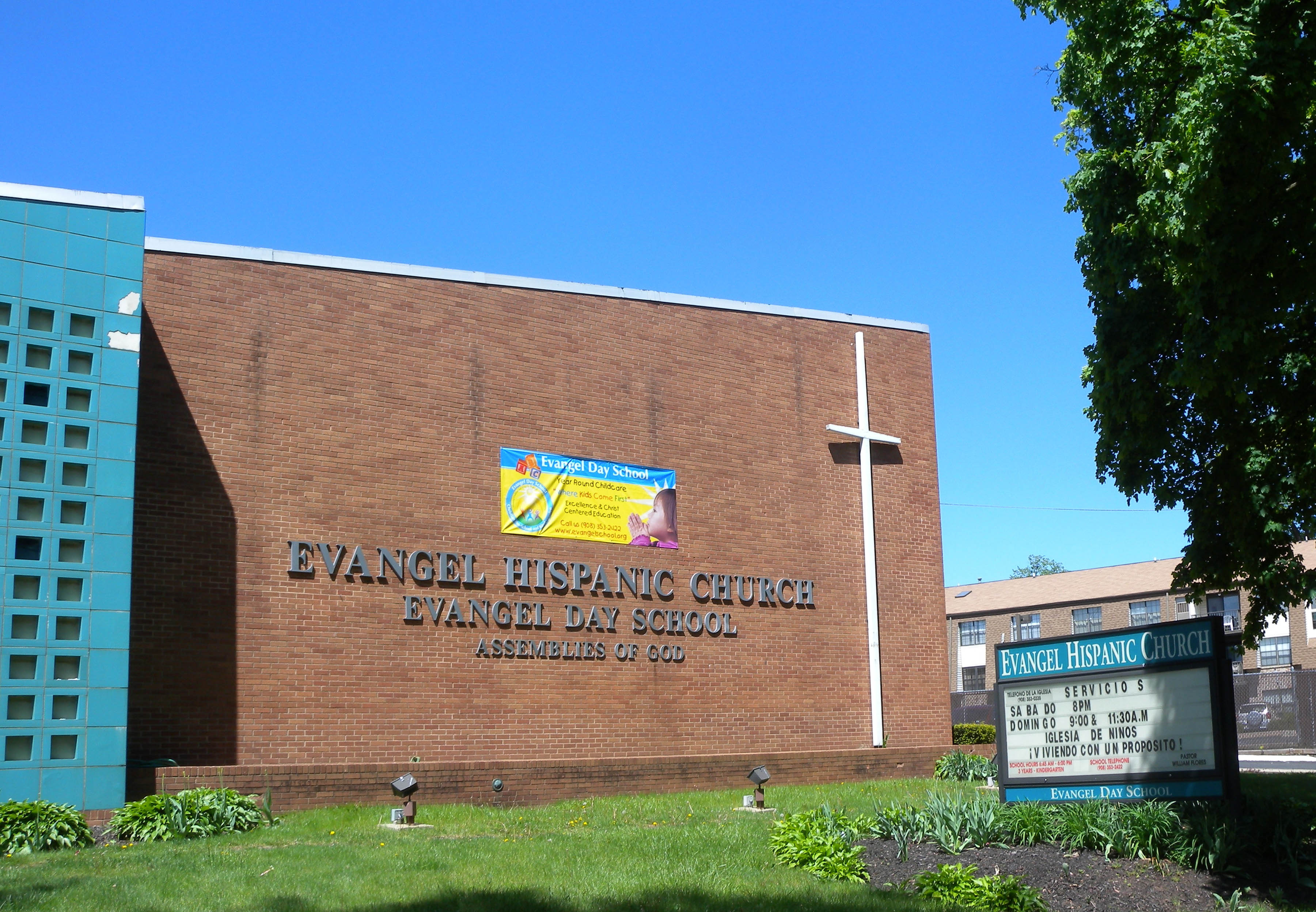 Looking northwest from North Broad at Evangel Hispanic Day School on a sunny morning.